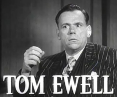 Cropped screenshot of Tom Ewell from the trailer for the film Adam's Rib.